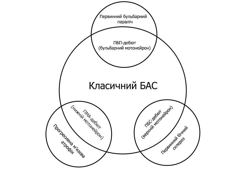 ALS's onsets due to US classification (ukrainain titles)